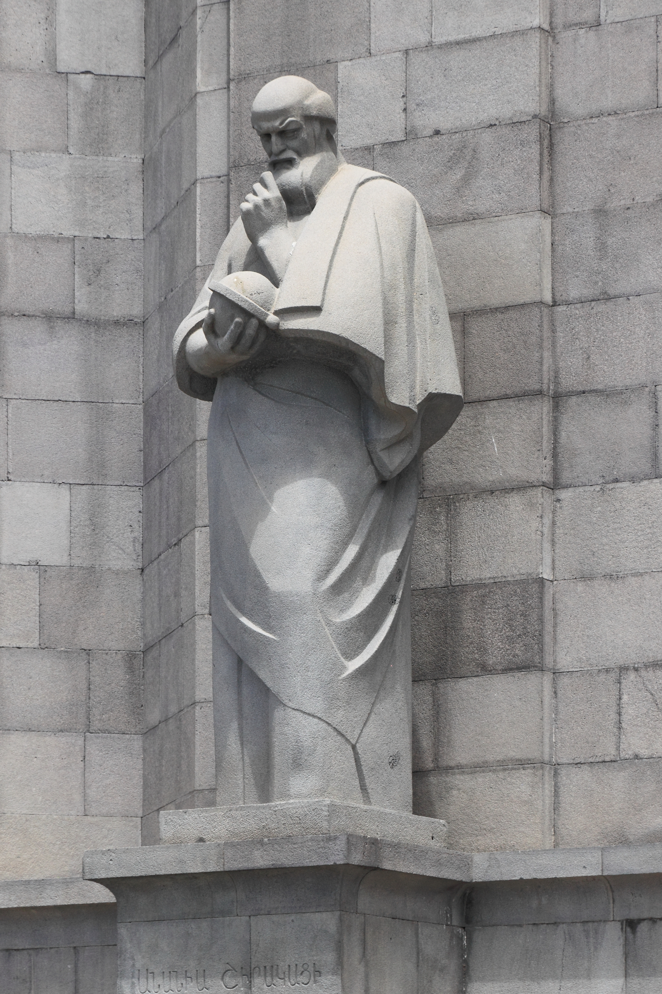 Statue of Anania Shirakatsi. Matenadaran. Yerevan, Armenia.